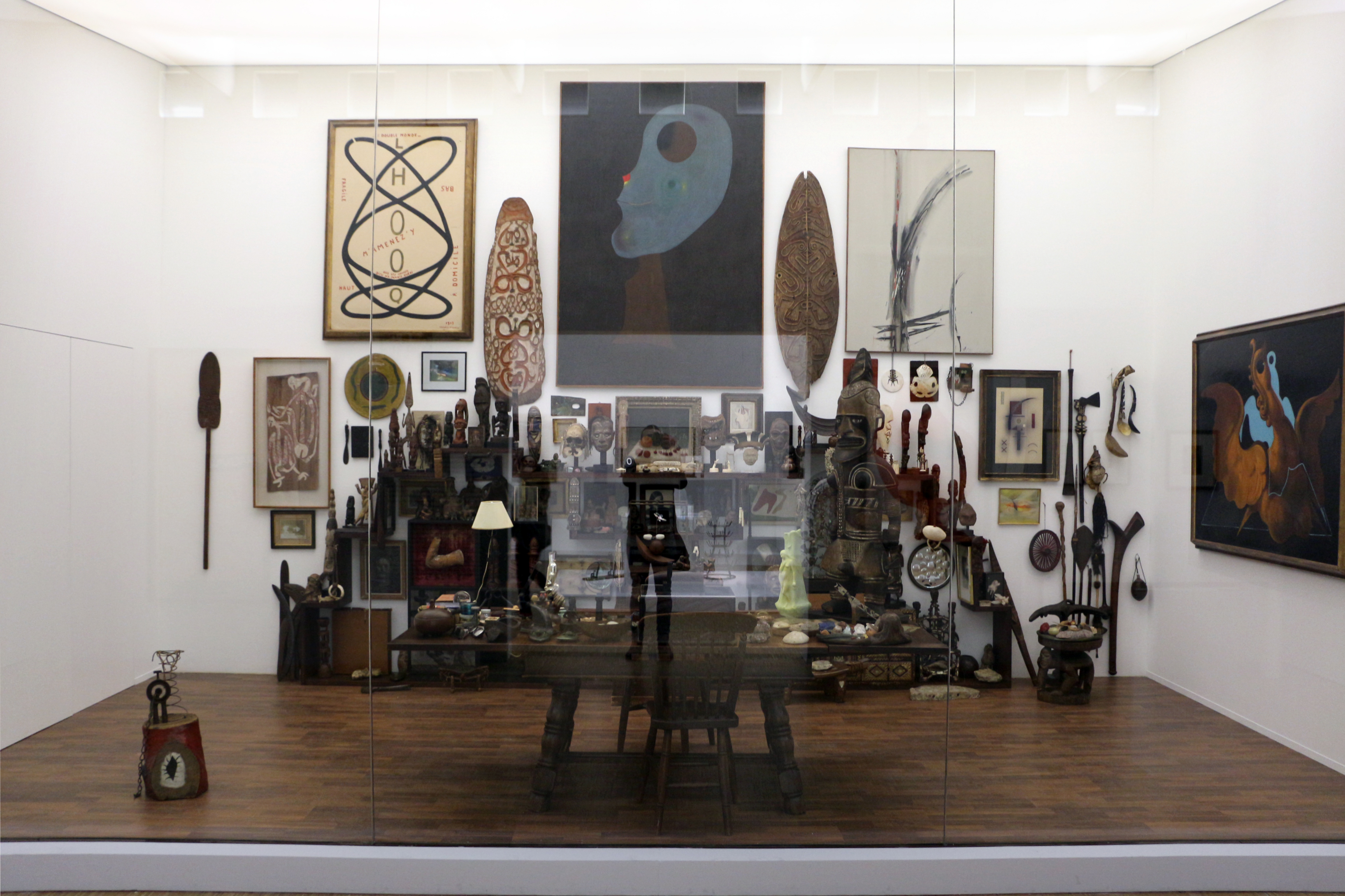 Decorative arts in the Musée national d'art moderne